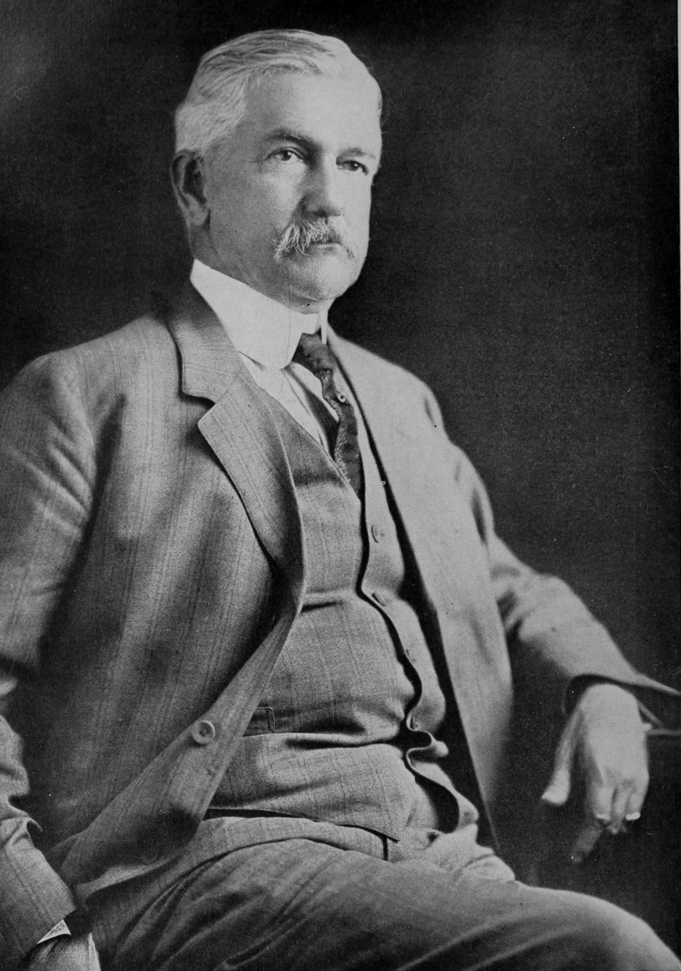 William Crawford Gorgas KCMG (October 3, 1854 – July 3, 1920)